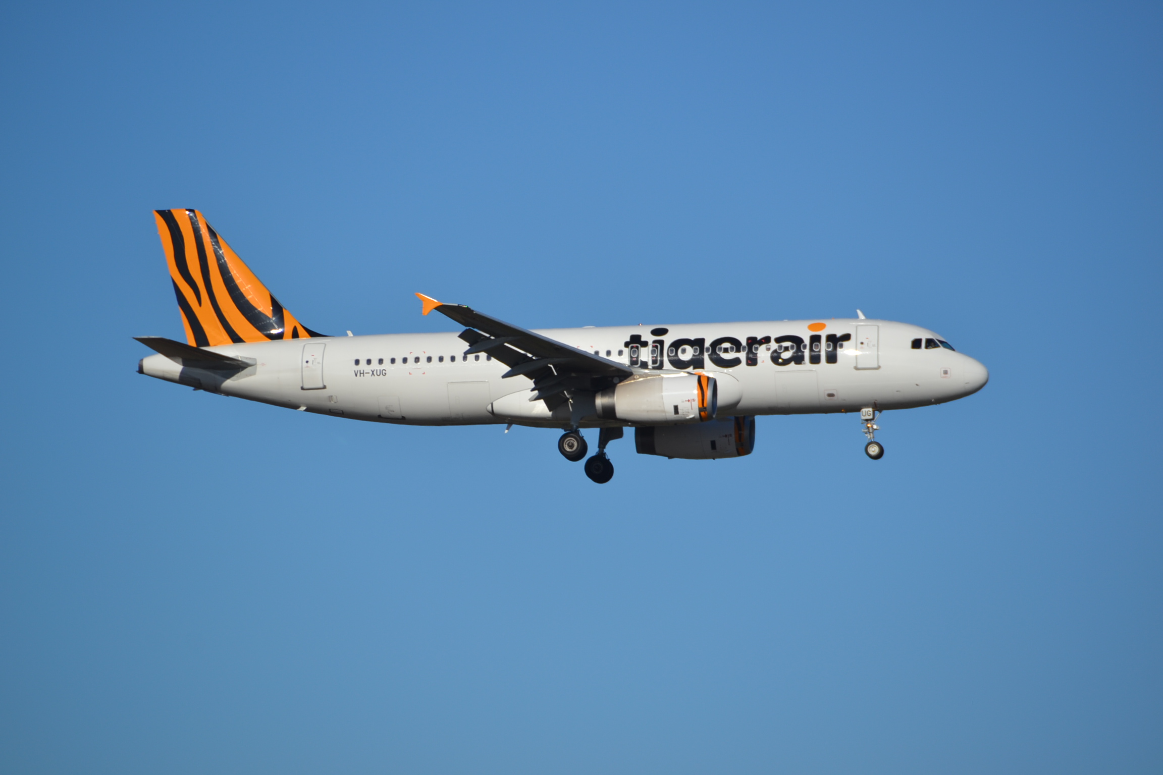 Airbus A320 of tigerair on final approach to rwy.16L at Sydney-SYD, NSW, Australia,18/11/14.